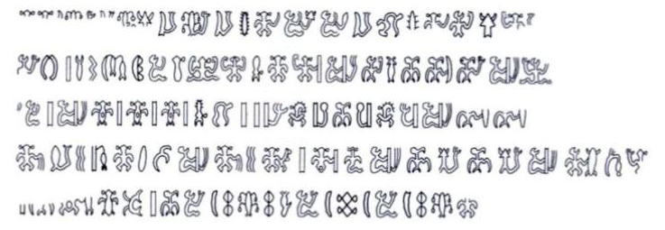 Fischer's tracing of rongorongo tablet N, side a